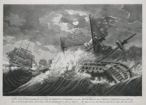 View of the wreck of the French ship Le Droits D' Homme, near the Penmarks, on the Coast of France. Jany 14th 1797. After a hard fought Action of 10 hours, with the Indefatigable & Amazon frigates. The Amazon was also Wreck'd a few hours after; the Crew Saved.